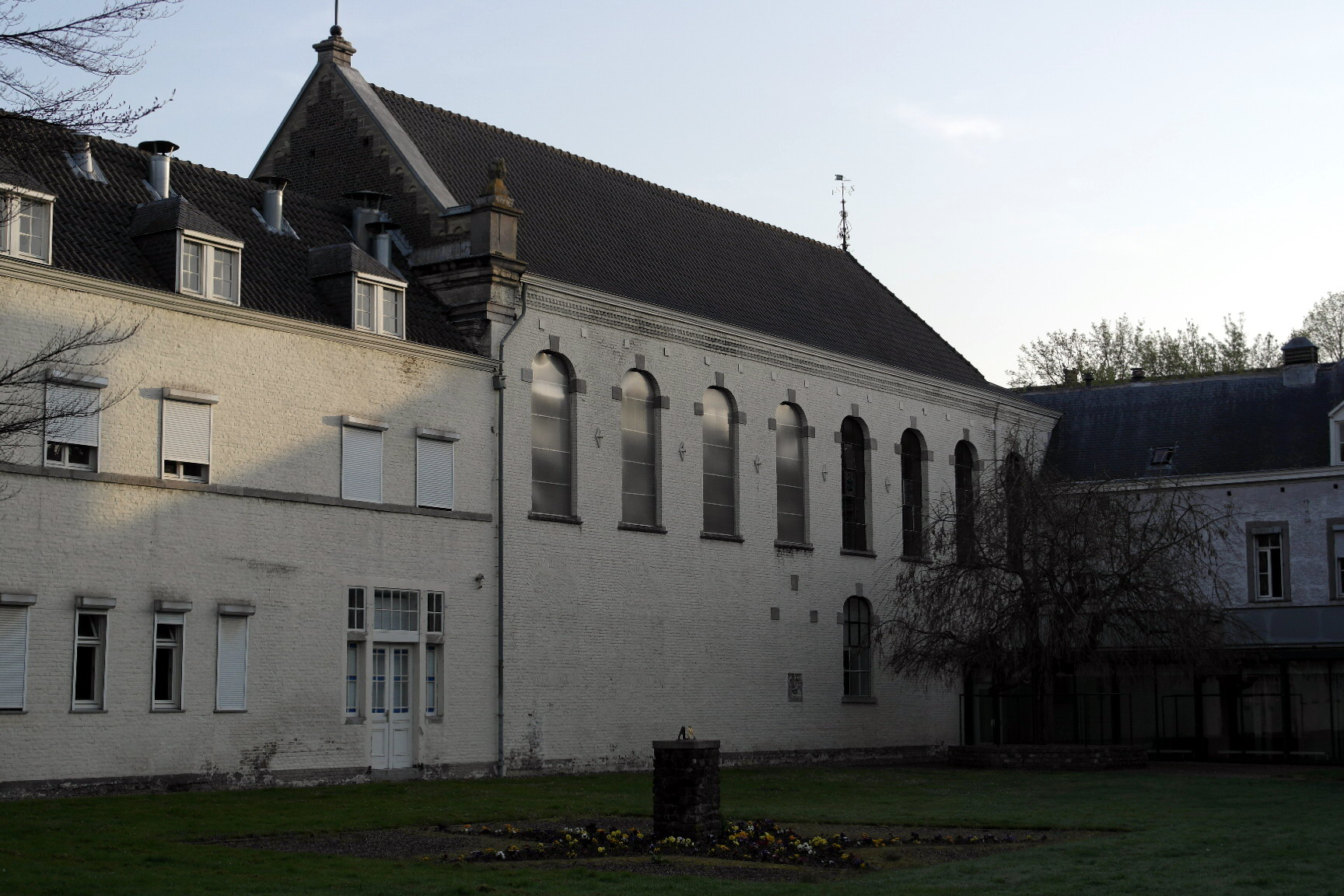 Maastricht, the Netherlands. View of the chapel of Calvariënberg monastery in the inner city neighbourhood of Kommelkwartier.